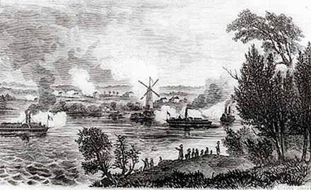 View of the Battle of Windmill Point, below Prescott, Upper Canada, (from the Ogdensburg side of the St. Lawrence).